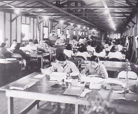 Staffs of USMGR